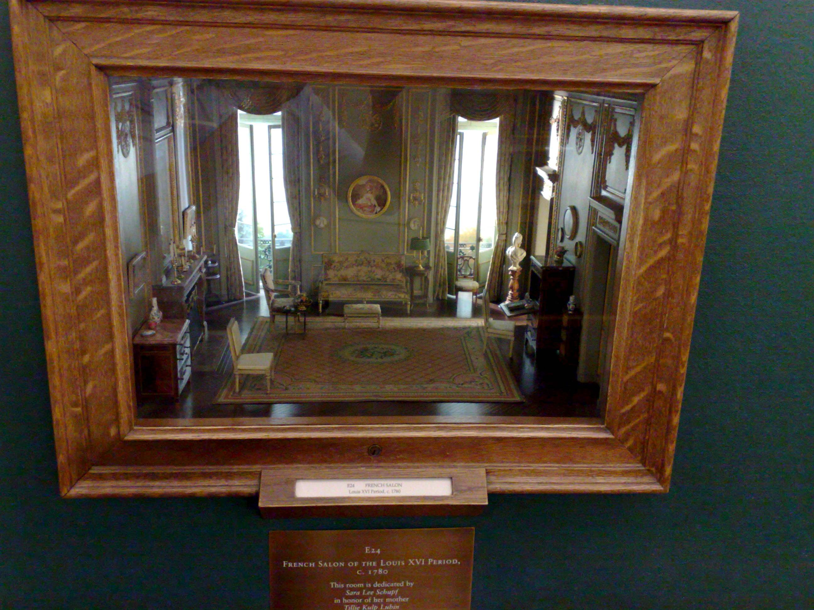 Miniature of a French Salon of the Louis XVI Period - The Thorne rooms - Art Institute of Chicago